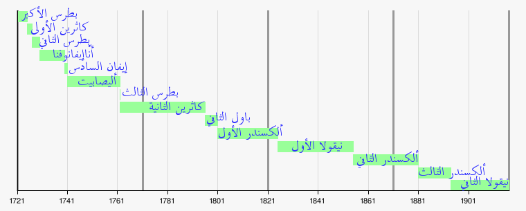 Emperors of the Russian empire